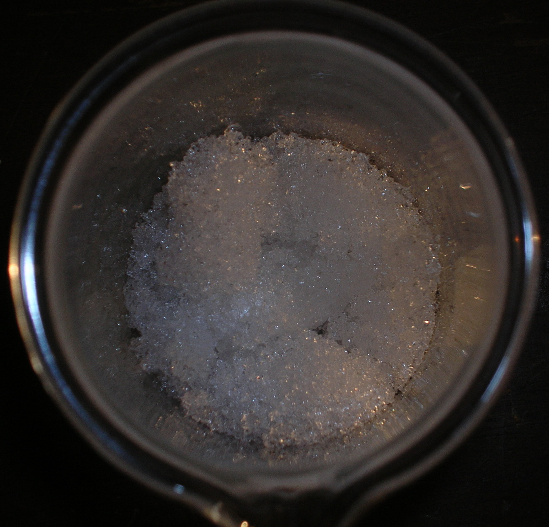 Crystals of ammonium-acetate (ammonium-ethanoate). Chemical formula: CH3COONH4